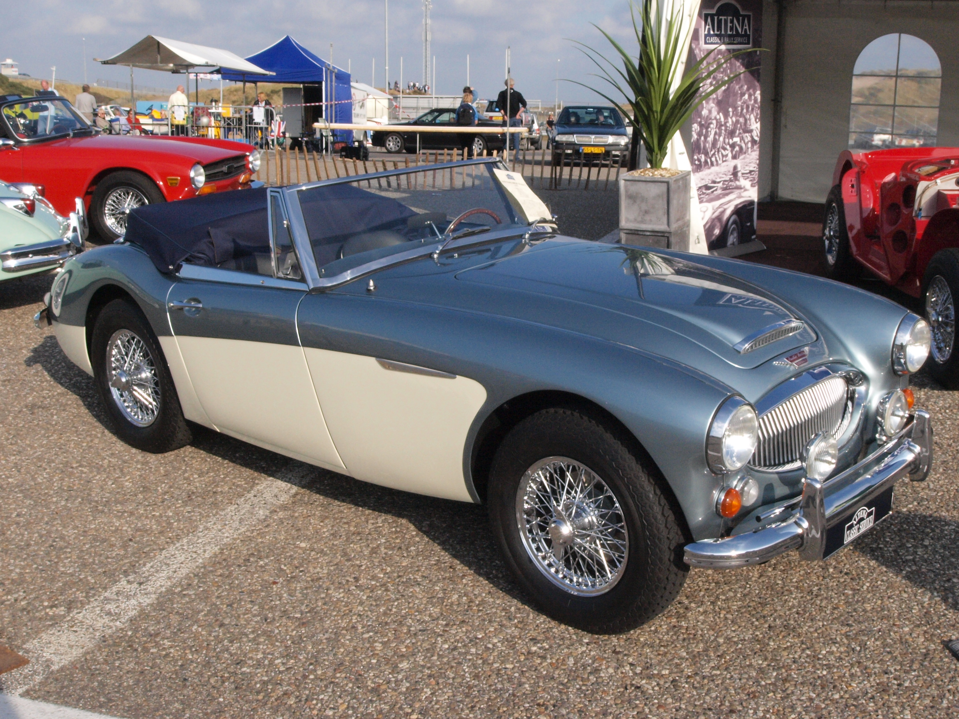 Photographed at the Nationaal Oldtimer Festival Zandvoort 2009, The Netherlands. OLYMPUS DIGITAL CAMERA